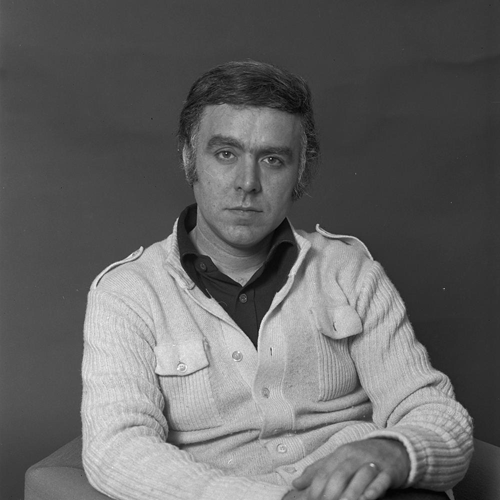 Portrait of Carlos do Carmo at the day of the Eurovision Song Contest 1976